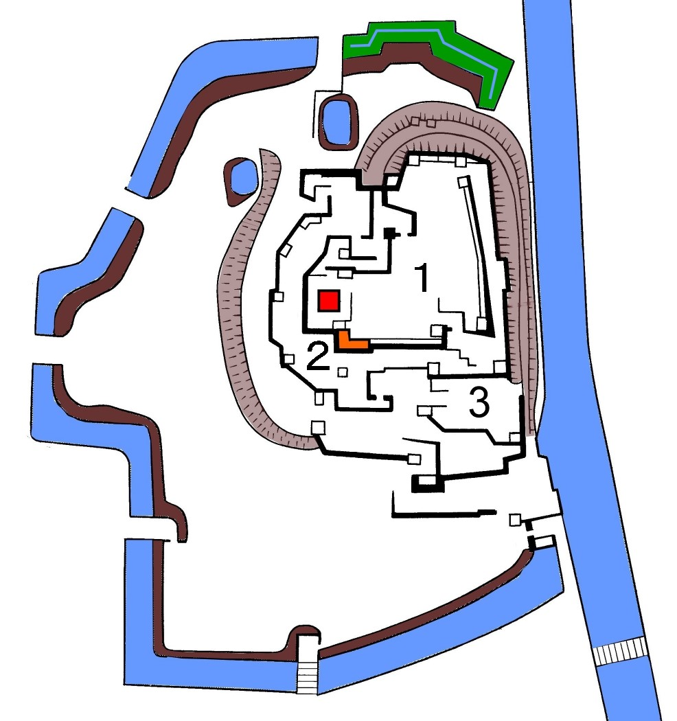 Layout of former Tsuyama castle